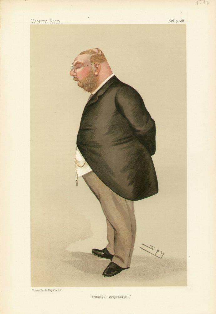 Statesmen No.502: Caricature of Sir AK Rollit Kt LLD MP. Caption reads: "municipal corporations"